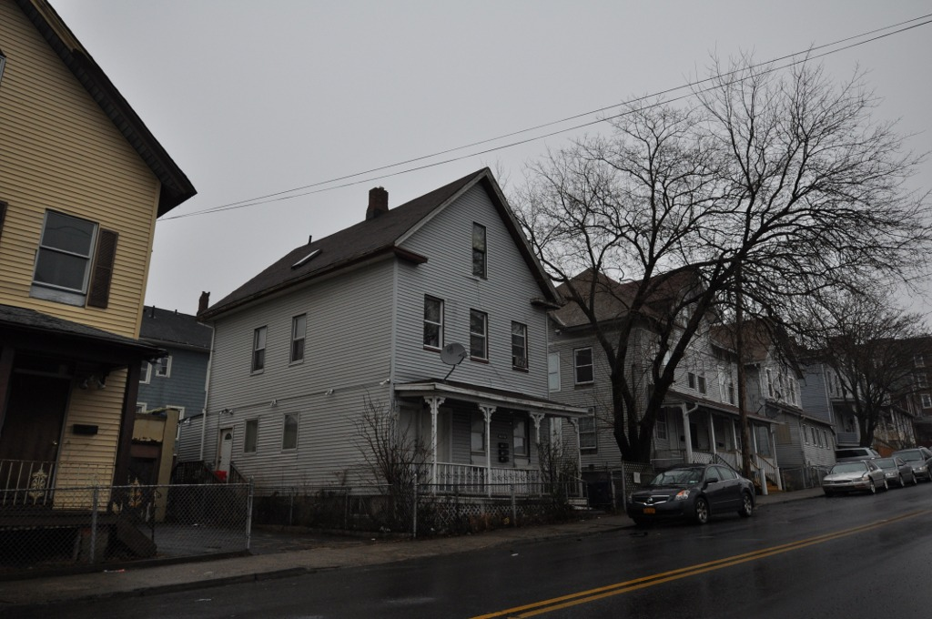 Pequonnock Street in Bridgeport, Connecticut; part of the Sterling Hill Historic District.